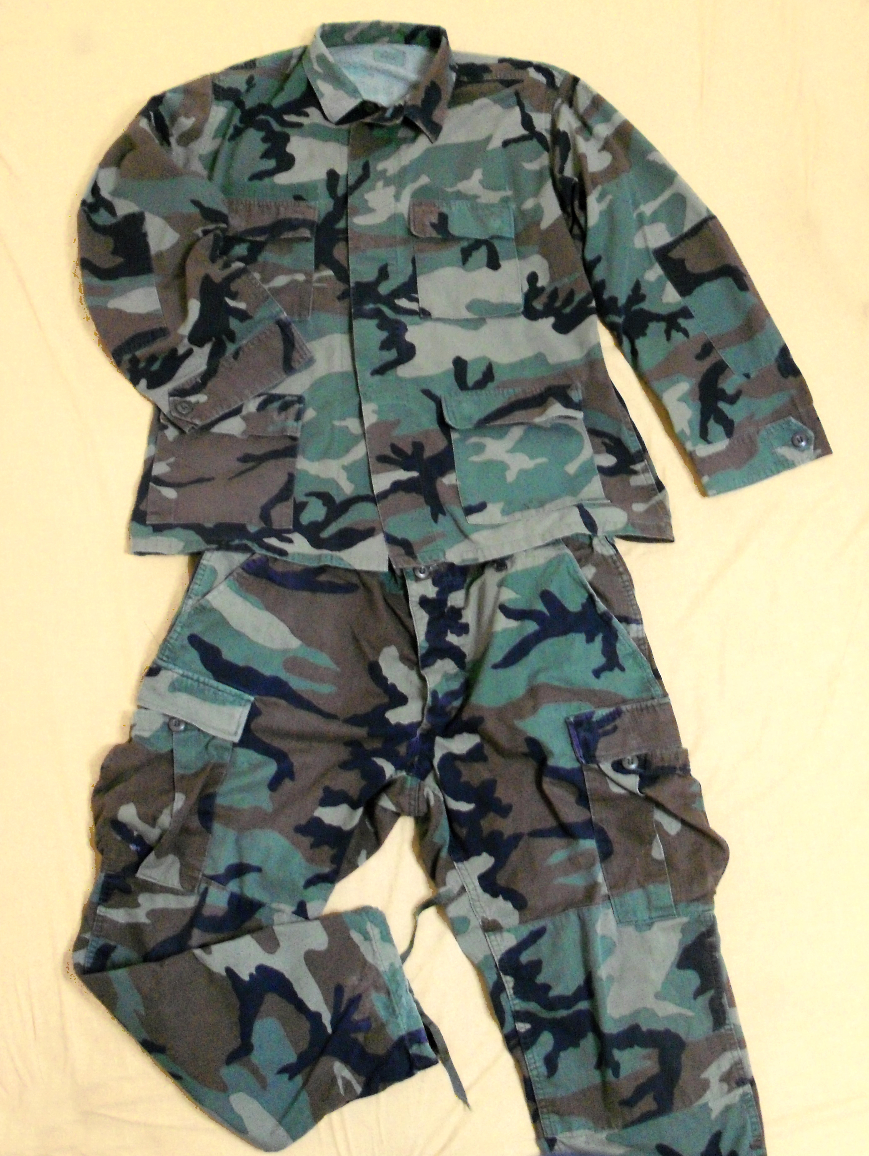 Uniform of the U.S. Army which was bought by the IDF.